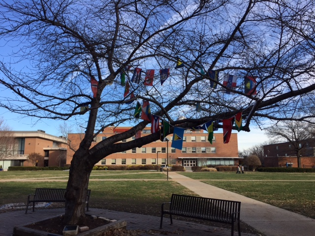 The Caribbean Students Association Tree on the main yard at Howard University.